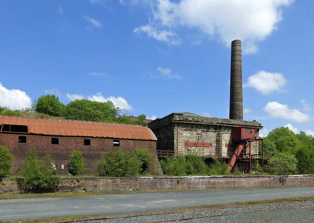 Former Industrial Site at Waterside